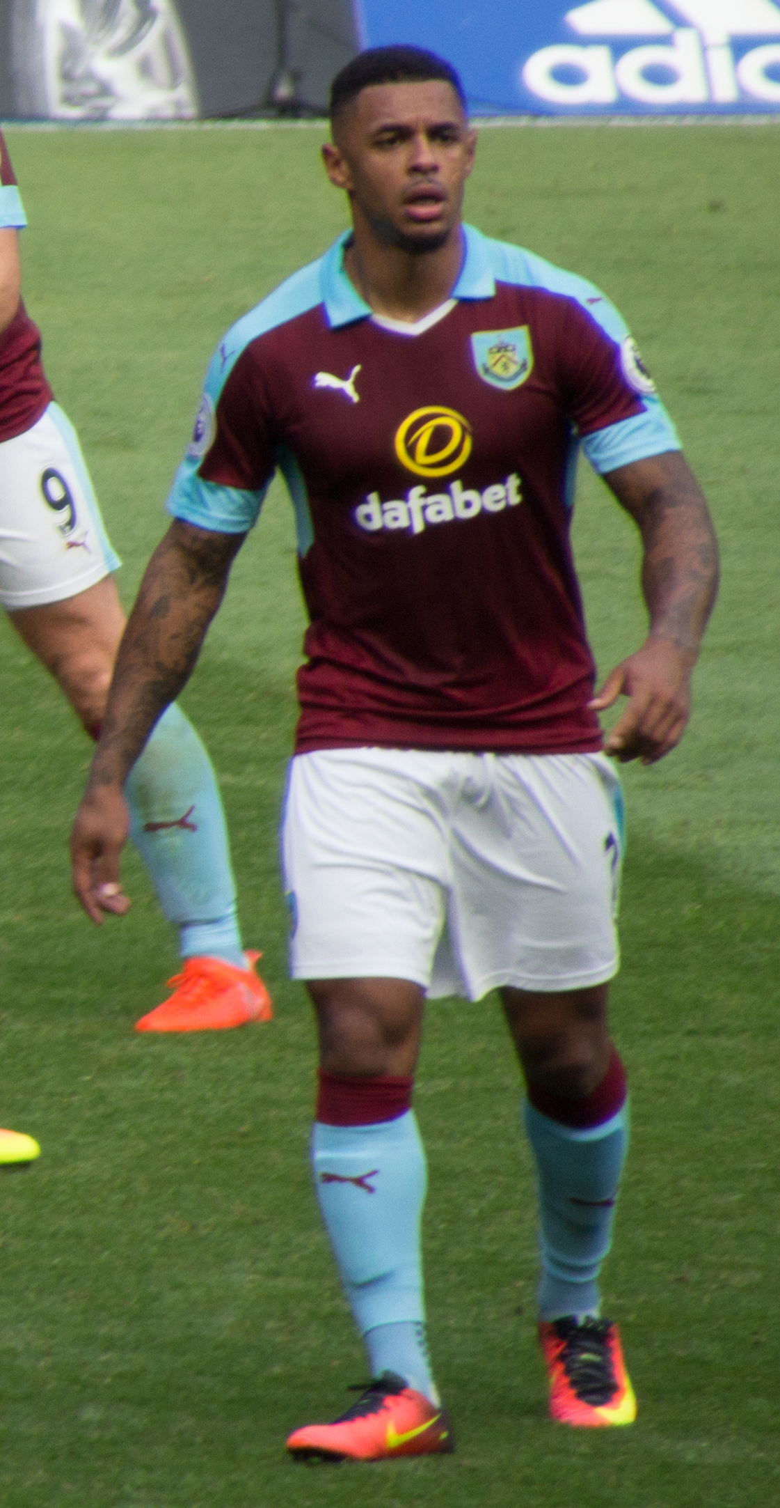 Chelsea 3 Burnley 0 27.8.16